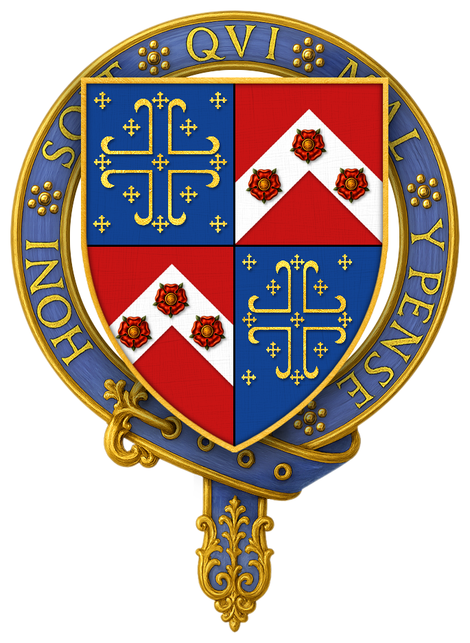 Coat of arms of Sir Francis Knollys, KG; quarterly of four: 1&4: Azure, a cross moline voided throughout between twelve cross crosslets or (Knollys of Stanford); 2&3: Gules on a chevron argent three roses of the field (Knollys)